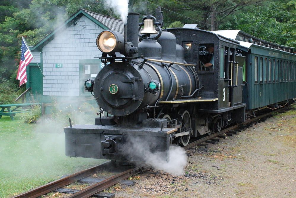 Monson Railroad locomotive No.3 operating on the restored Sandy River Railroad